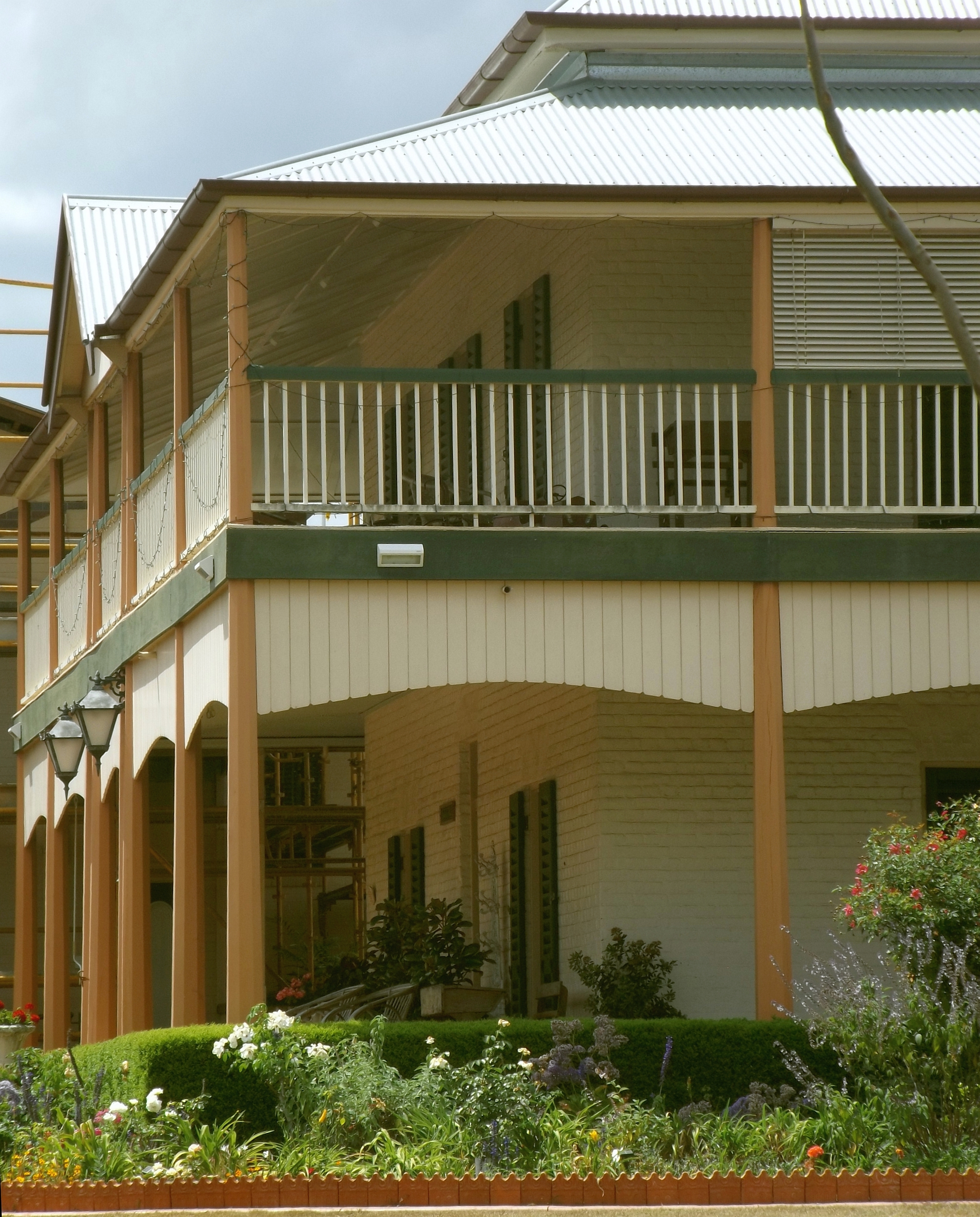 Photo of Booval House at Booval, Ipswich, Queensland, Australia.